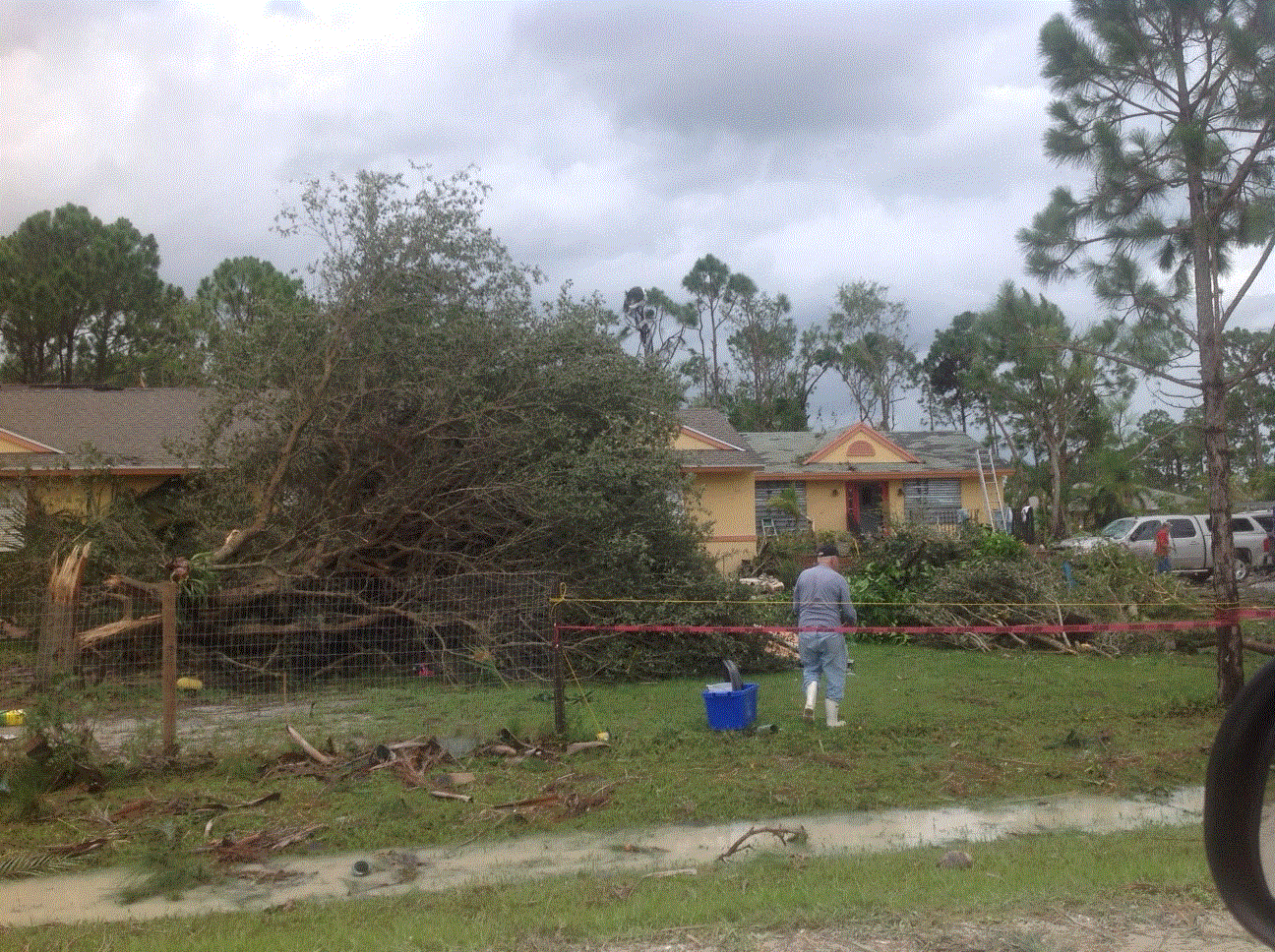 A tornado spawned by Tropical Storm Andrea in The Acreage, Florida, on June 6, 2013.